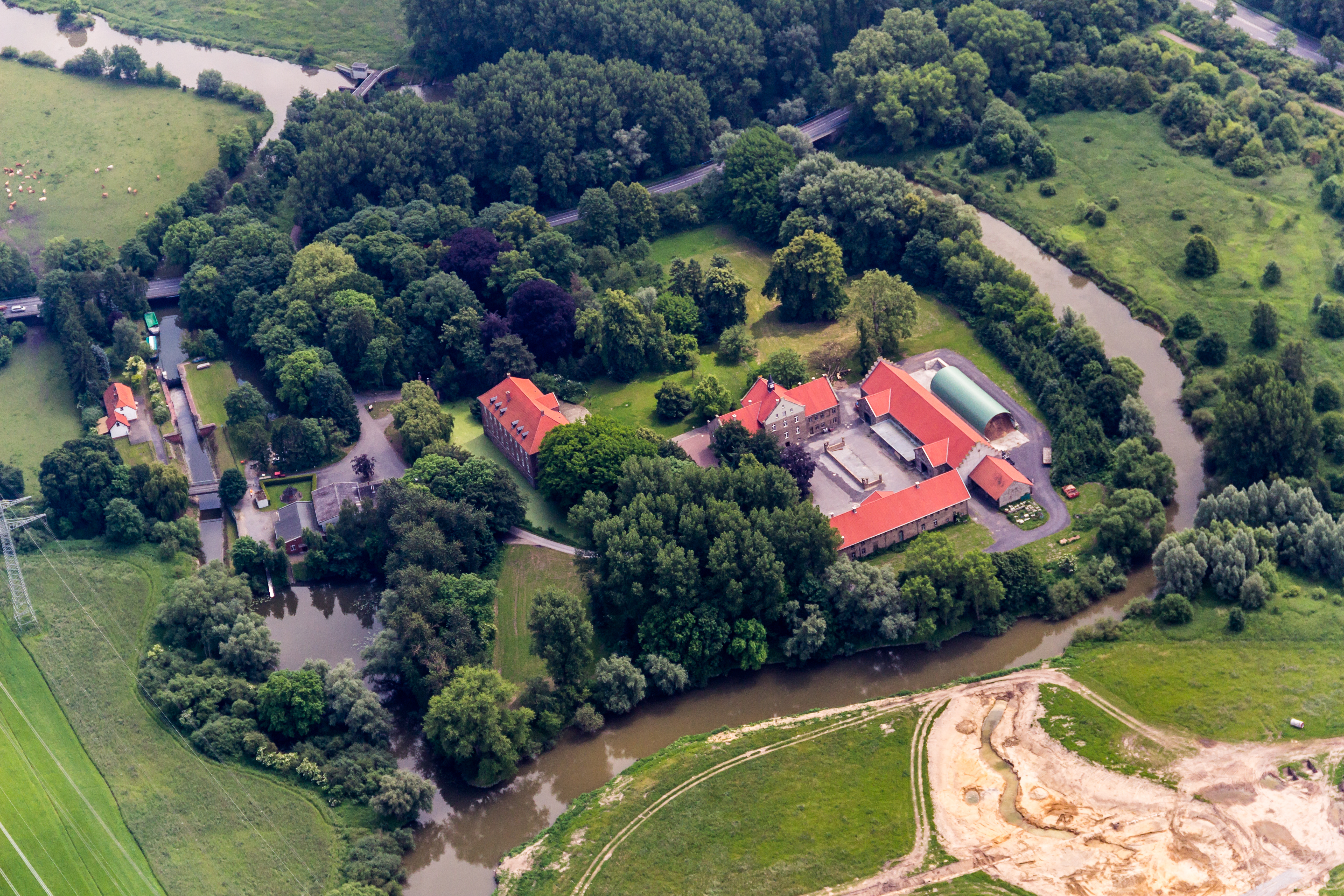 Uentrop Manor, Hamm, North Rhine-Westphalia, Germany 45).